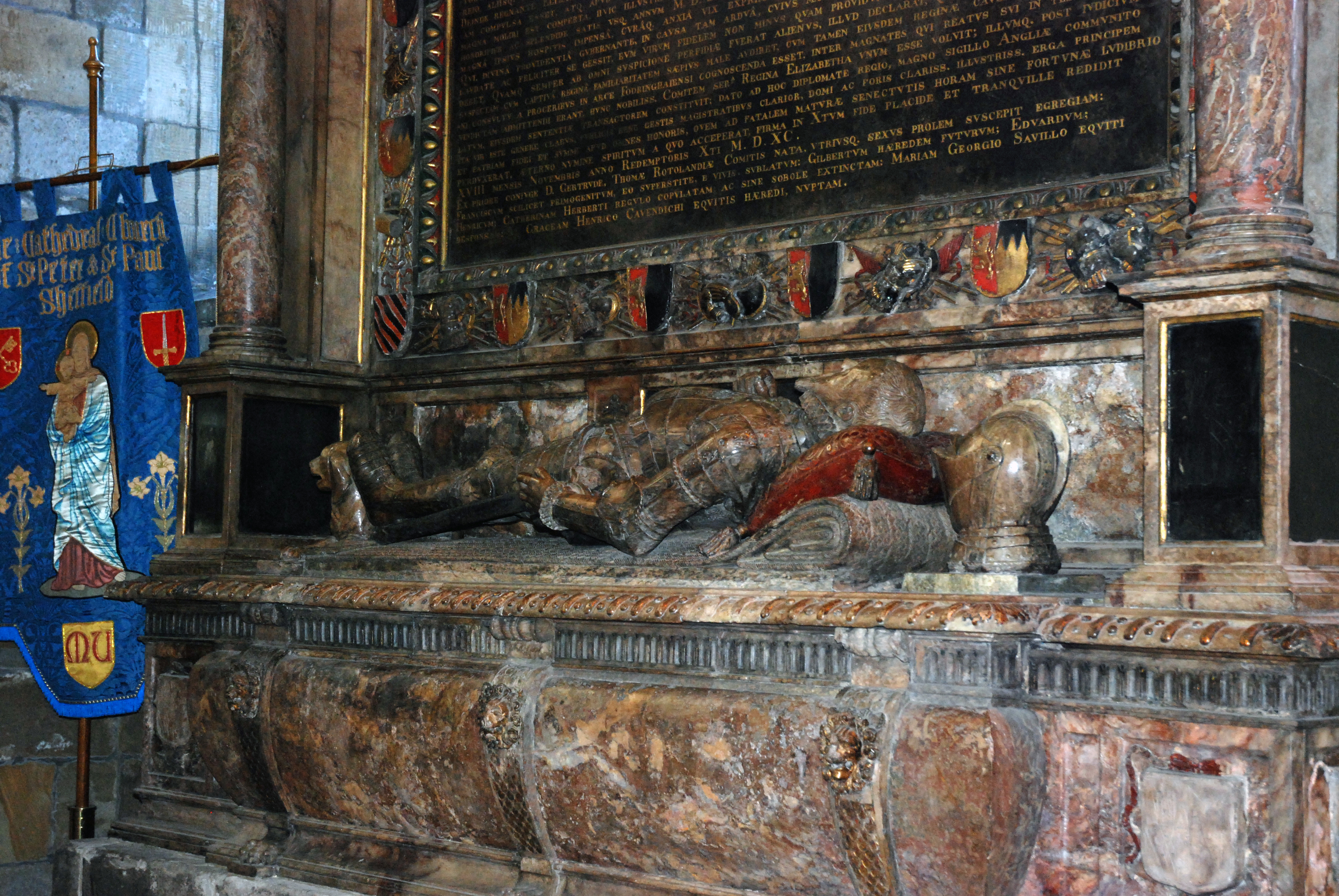 Sheffield Cathedral, south wall of the Shrewsbury Chapel, alabaster monument to George Talbot, 6th Earl of Shrewsbury with its architectural surround, armoured effigy, and Latin inscription. Several members of the family are buried in the vault. Arms Talbot (Gules, a lion rampant or a bordure engrailed of the last) impaling various including Harsick (Or, a chief indented sable). The monument on the left towards the sanctuary is to George Talbot, 4th Earl of Shrewsbury. It is made of fine marble, carved in an Italian style to depict the Earl and his two wives in positions of prayer.